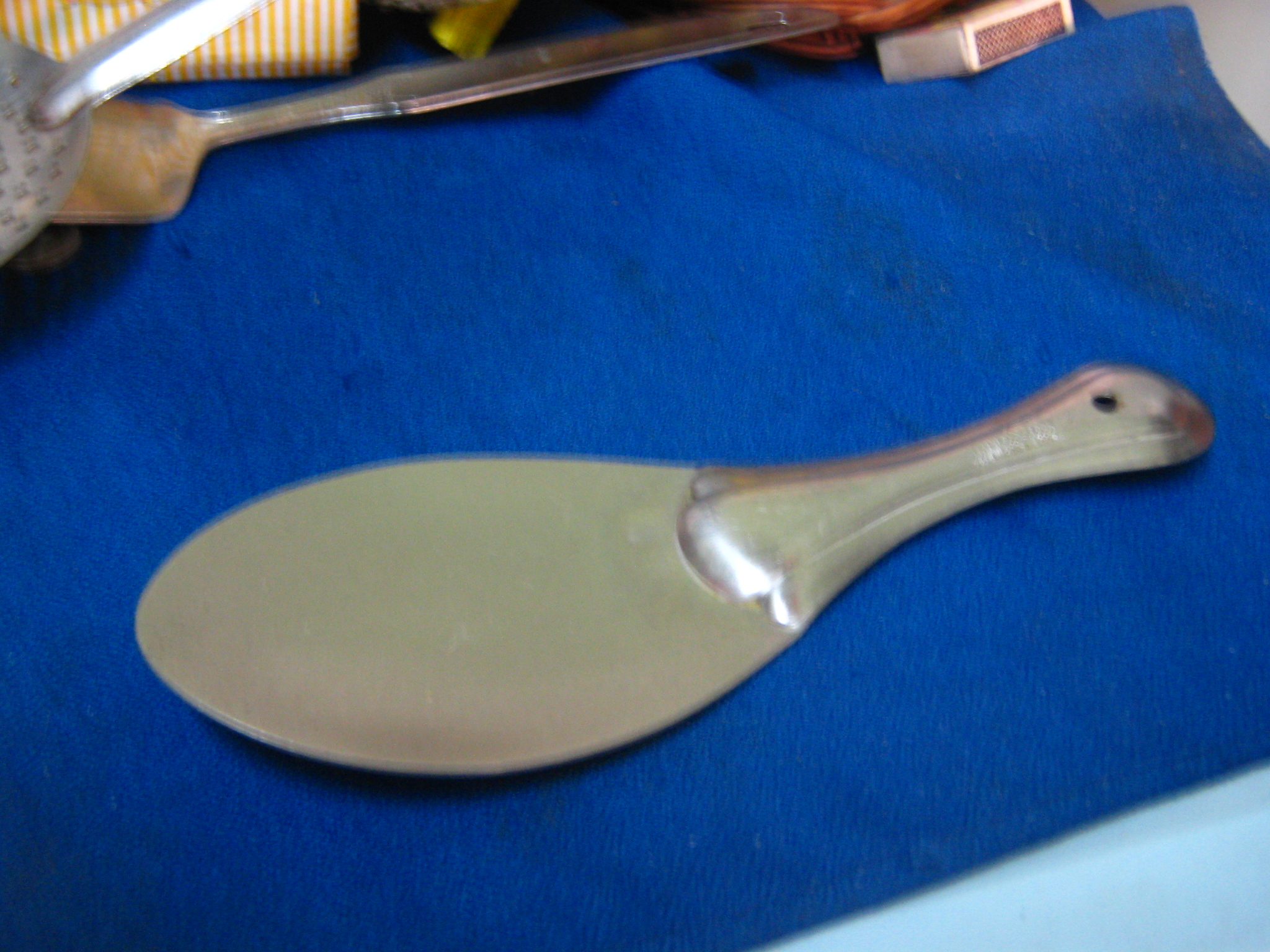 Utensils used in Indian kitchens